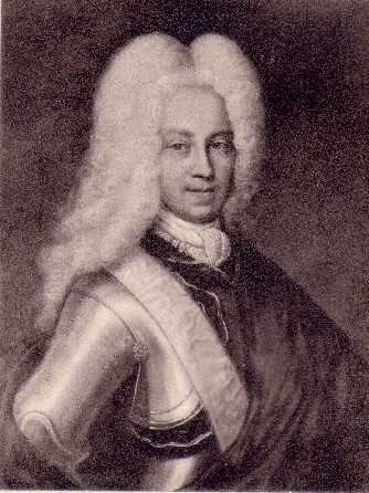 Adam Christopher (von) Knuth (1687-1736), Danish Count and estate owner